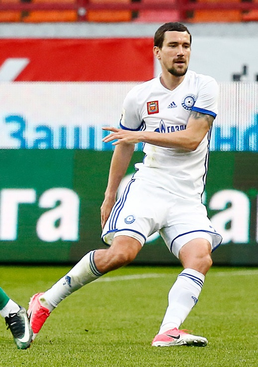 Vladimir Poluyakhtov with FC Orenburg in a game against FC Lokomotiv Moscow.